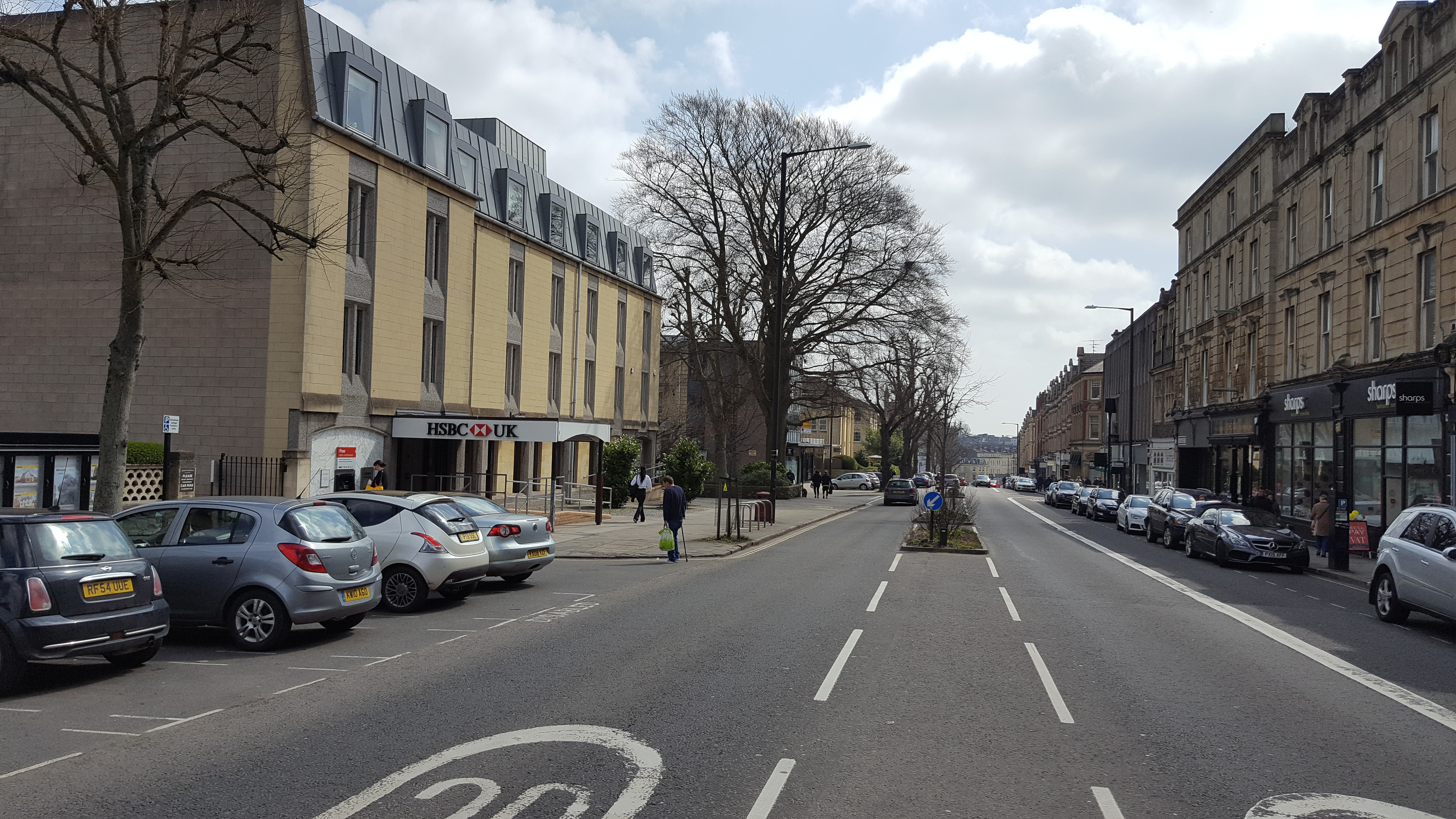 Whiteladies Road looking south. Newer buildings on left are set back behind 'road widening' building line.